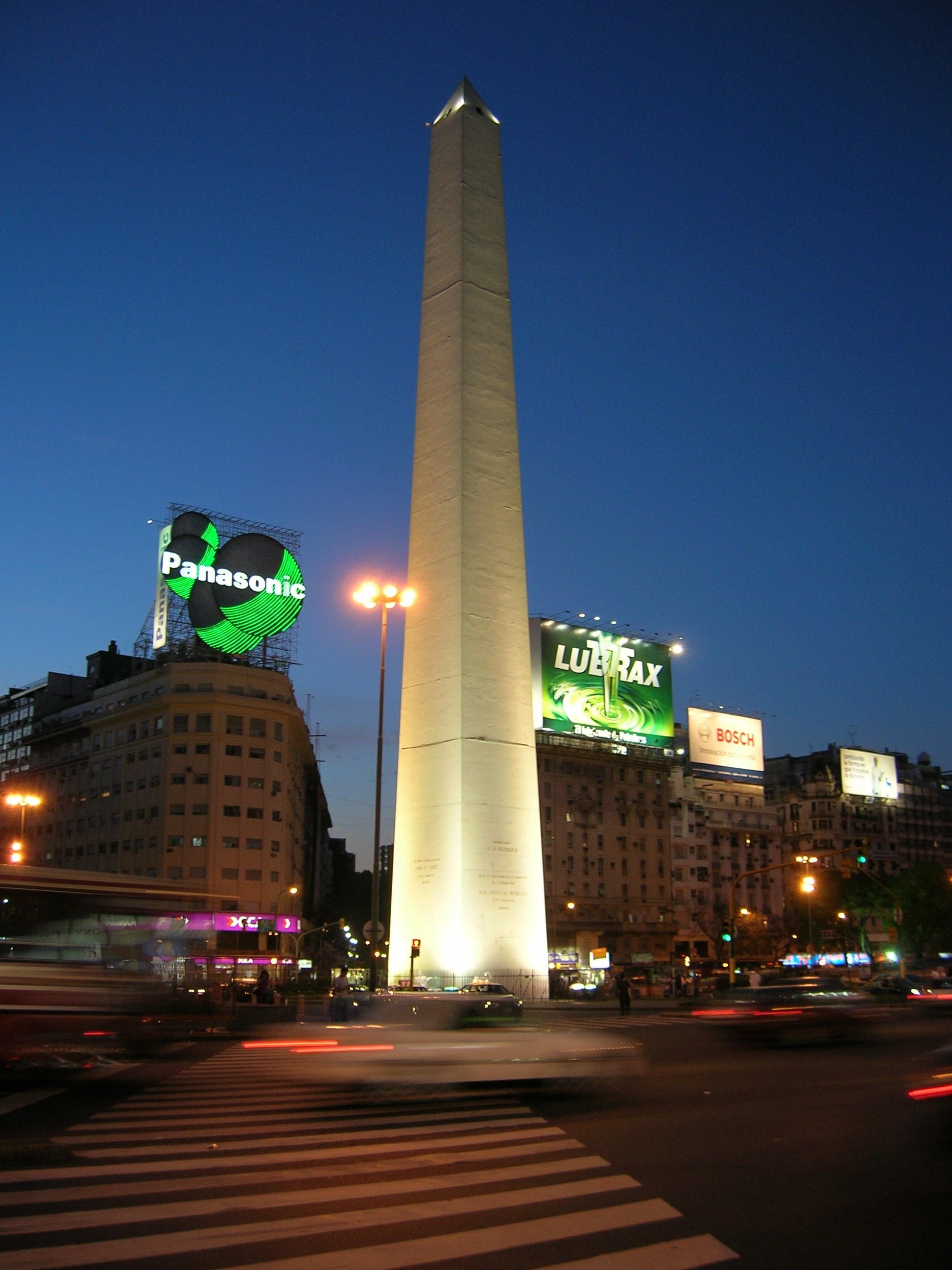 The Obelisk of Buenos Aires at night. El Obelisco de Buenos Aires de noche.